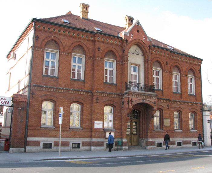 Kaptol 6, Zagreb